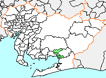 Hoi district (宝飯郡), Aichi, Japan